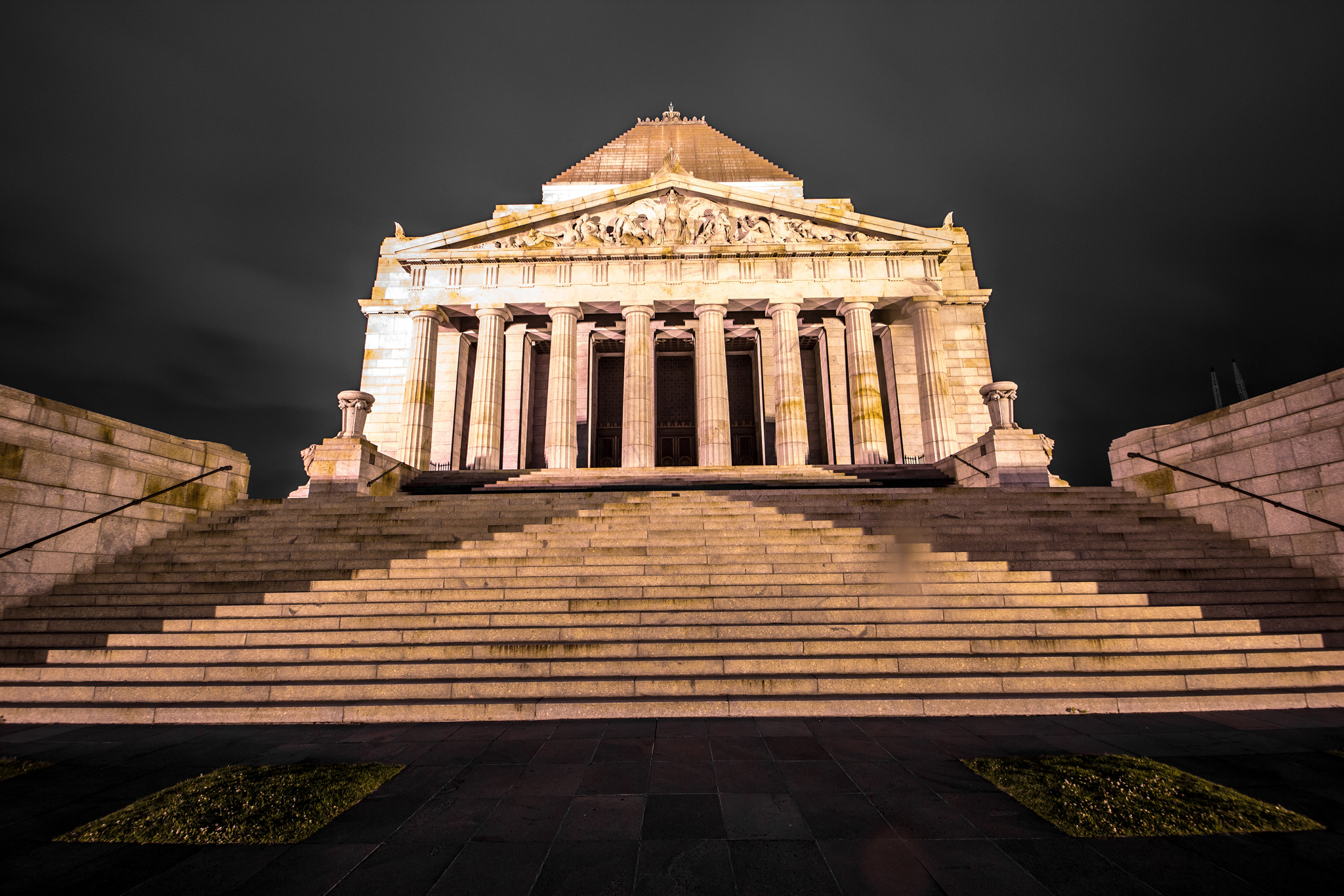 The Shrine of Remembrance, Melbourne